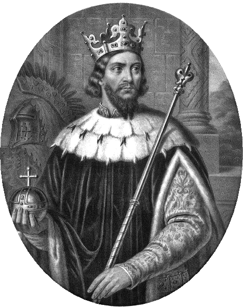 Wenceslaus II of Poland and Bohemia